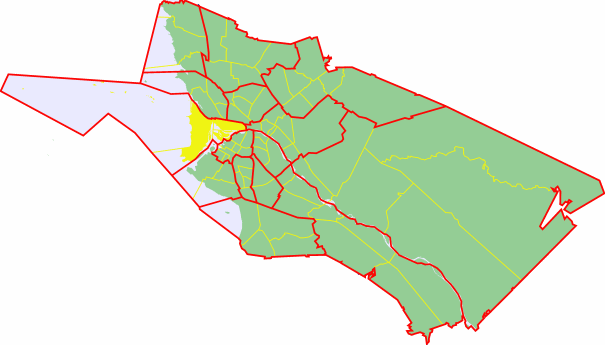 Map of Oulu, Finland highlighting the Greated Tuira district.